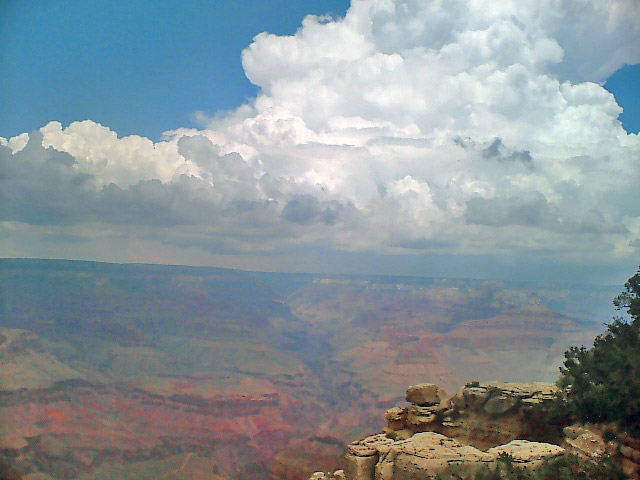 Grandcanyonstorm